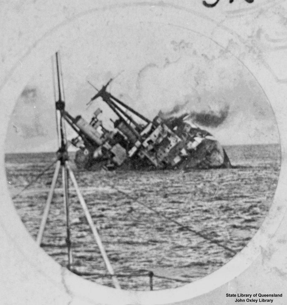 Australia (ship)